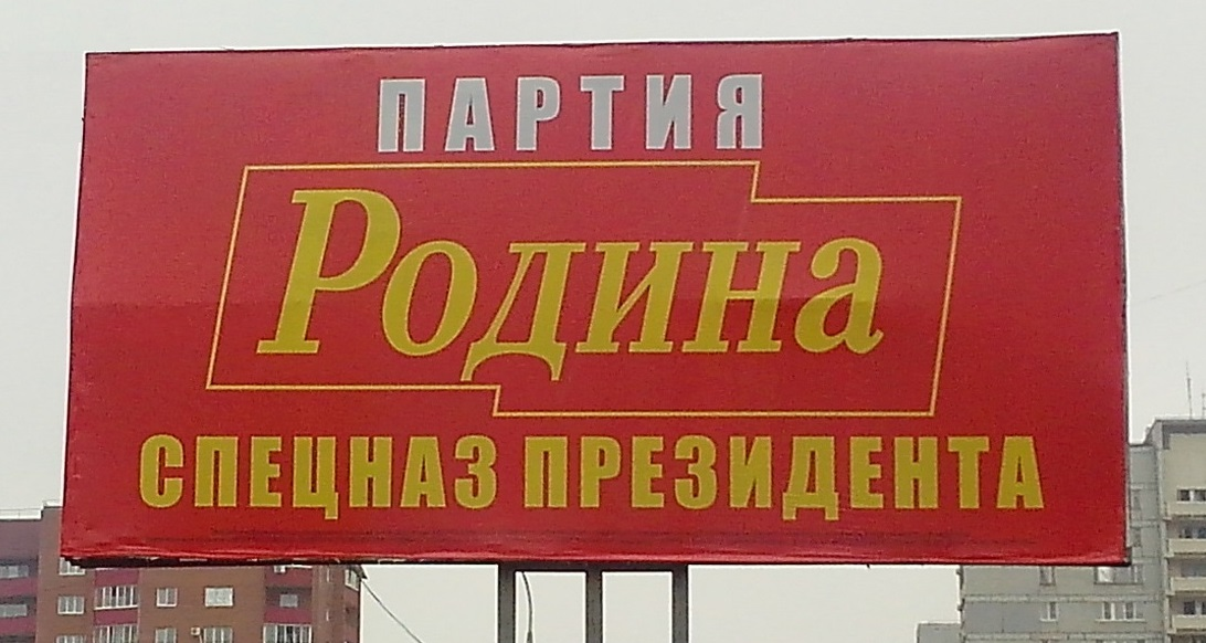 Pre-election banner of the Party RODINA in the single day of voting on 8 September 2013 in the city of Tolyatti, Samara region, Russia. inscription: the PARTY RODINA SPETSNAZ PRESIDENT